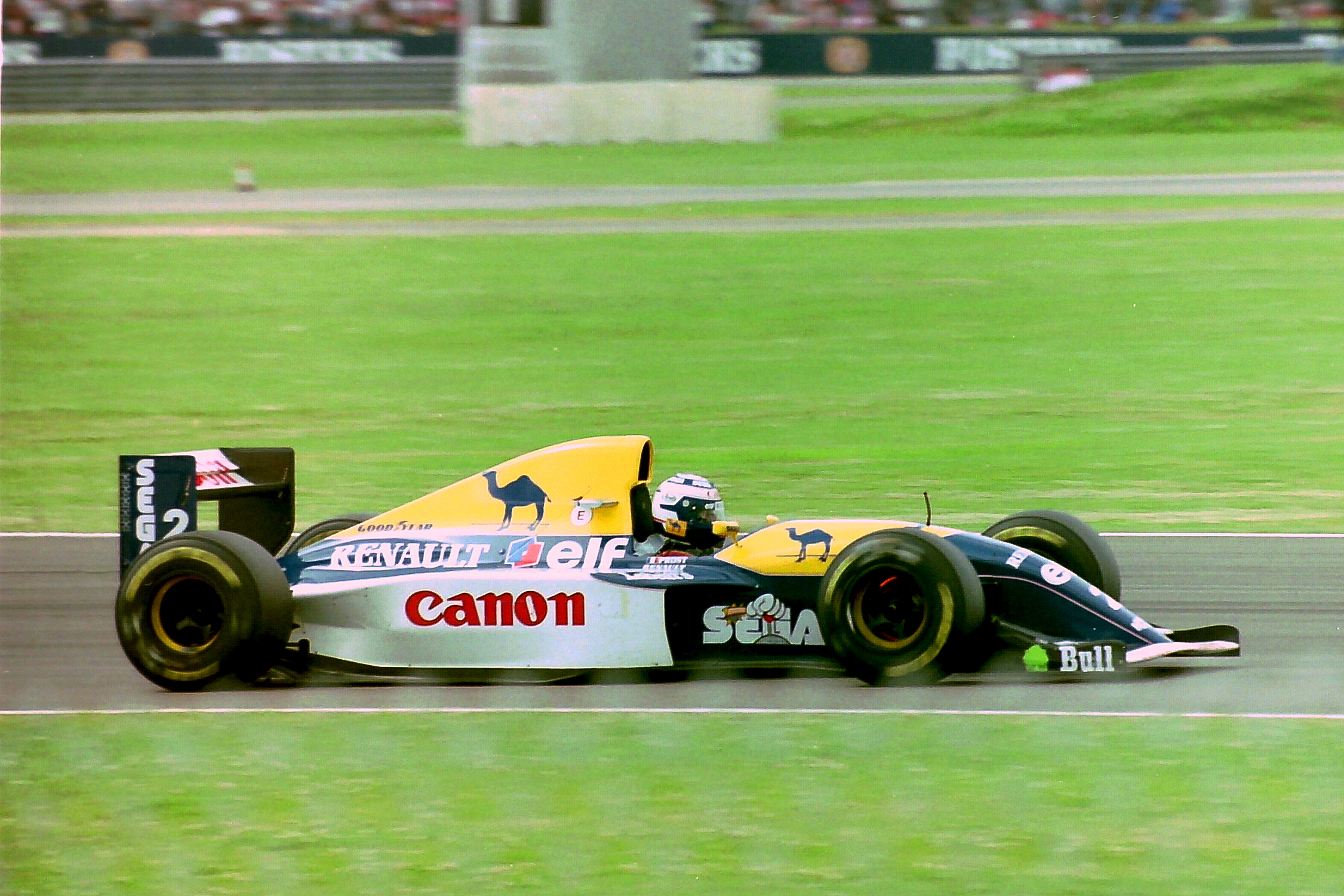 Alain Prost - Williams FW15C at the 1993 British Grand Prix